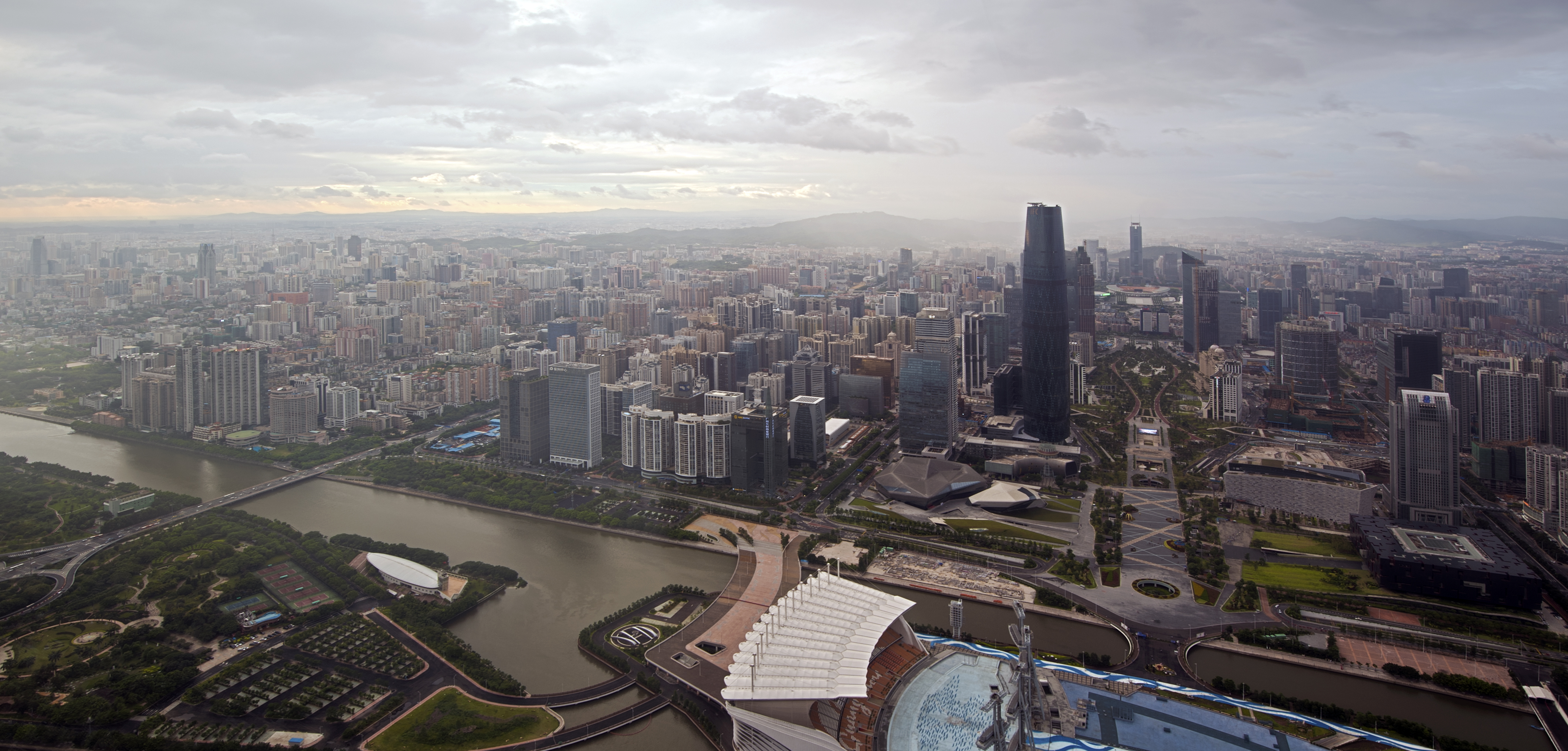 guangzhou china city skyline dusk panorama 2011